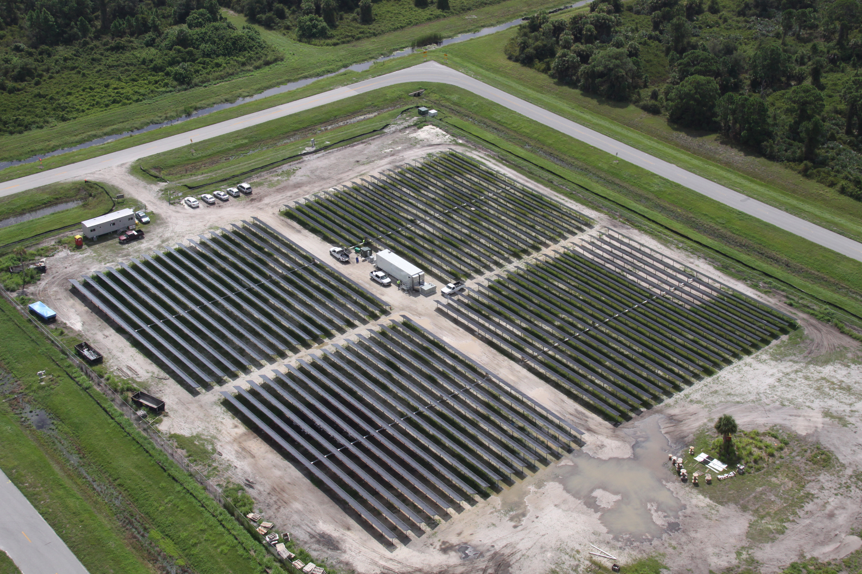 An aerial view of the site in the Industrial Area of NASA's Kennedy Space Center in Florida where a solar power system is being built. The solar power systems are being constructed by NASA and Florida Power & Light Company as part of a public-private partnership that promotes a clean-energy future. This site located on 10 acres will produce about one megawatt of electricity for Kennedy to use.